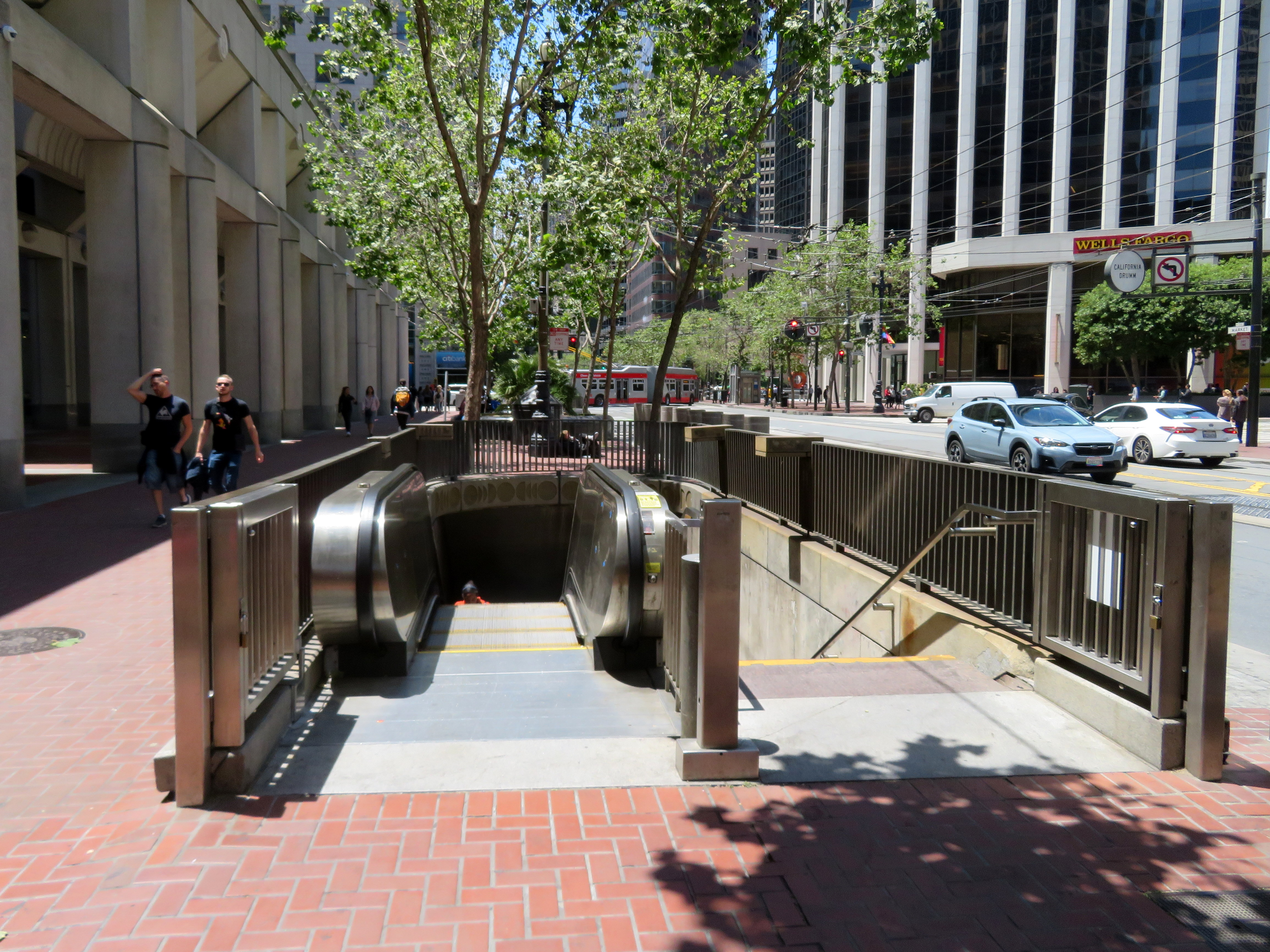 Spear Street entrance to Embarcadero station in June 2019